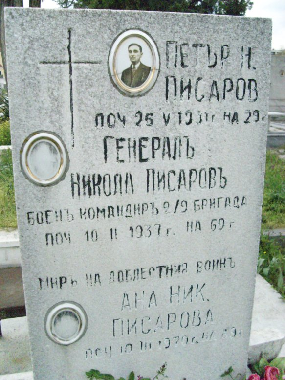 the grave stone of general Nikola Pisarov, his wife Anna and his only son Peter